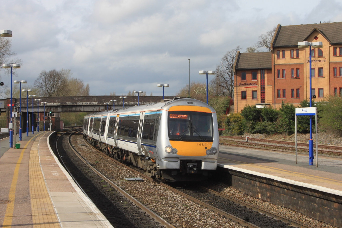 Chiltern's 168218 pulls in to Banbury station with a train from Birmingham to London Marylebone.